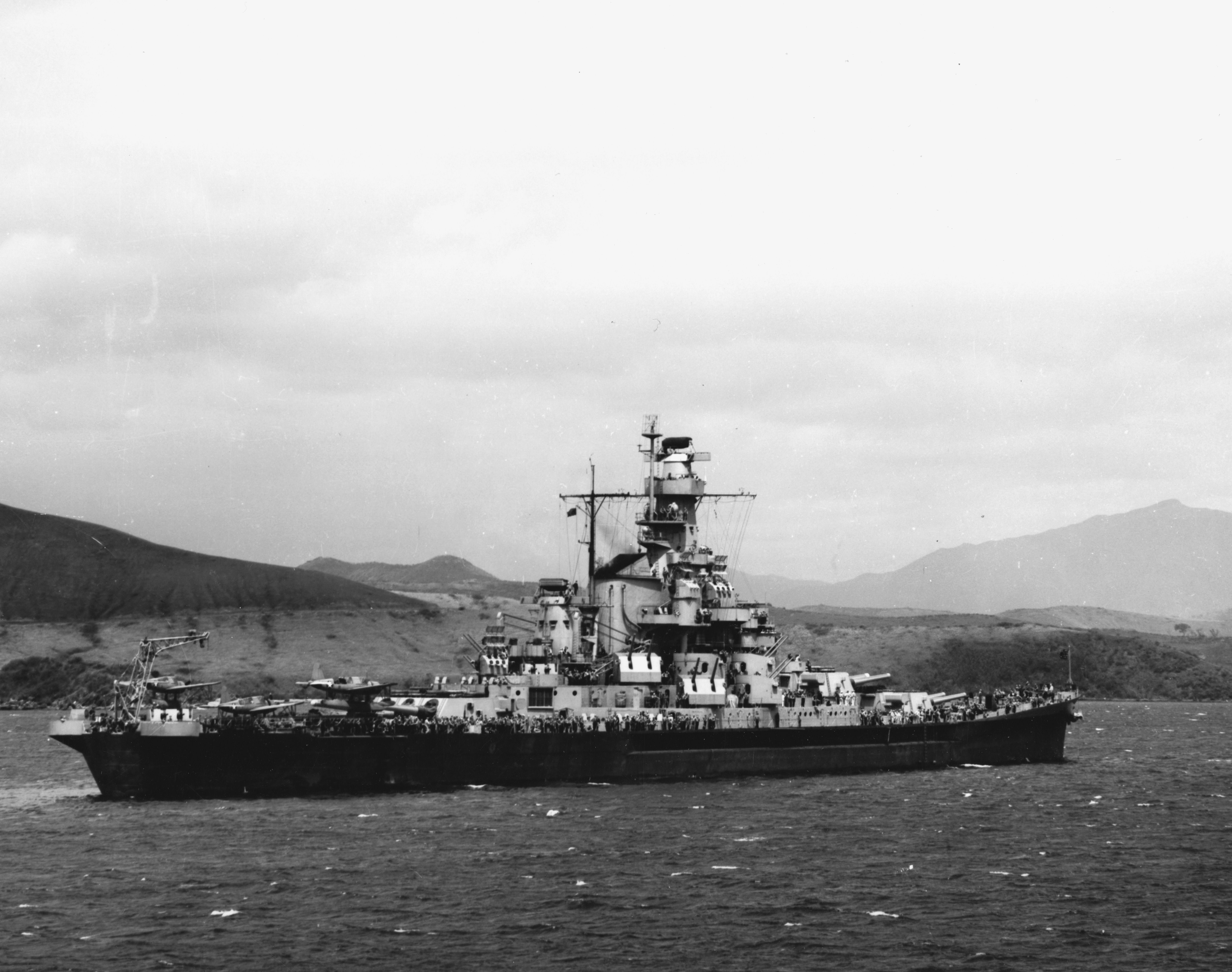 The U.S. Navy battleship USS Indiana (BB-58) in a South Pacific harbor, December 1942.